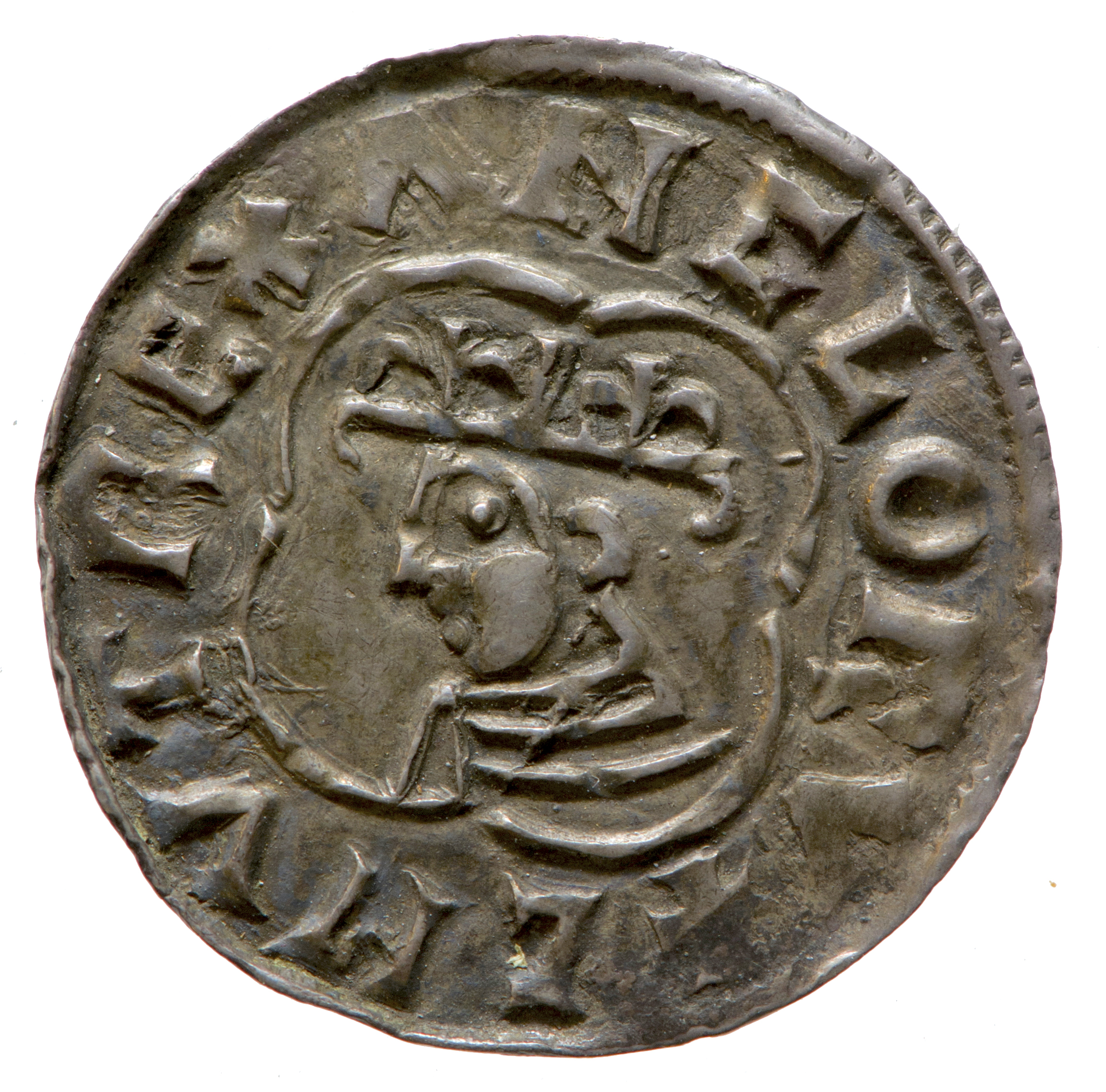 Obverse (front) of a silver penny of Cnut_the_Great Head facing left with quatrefoil.